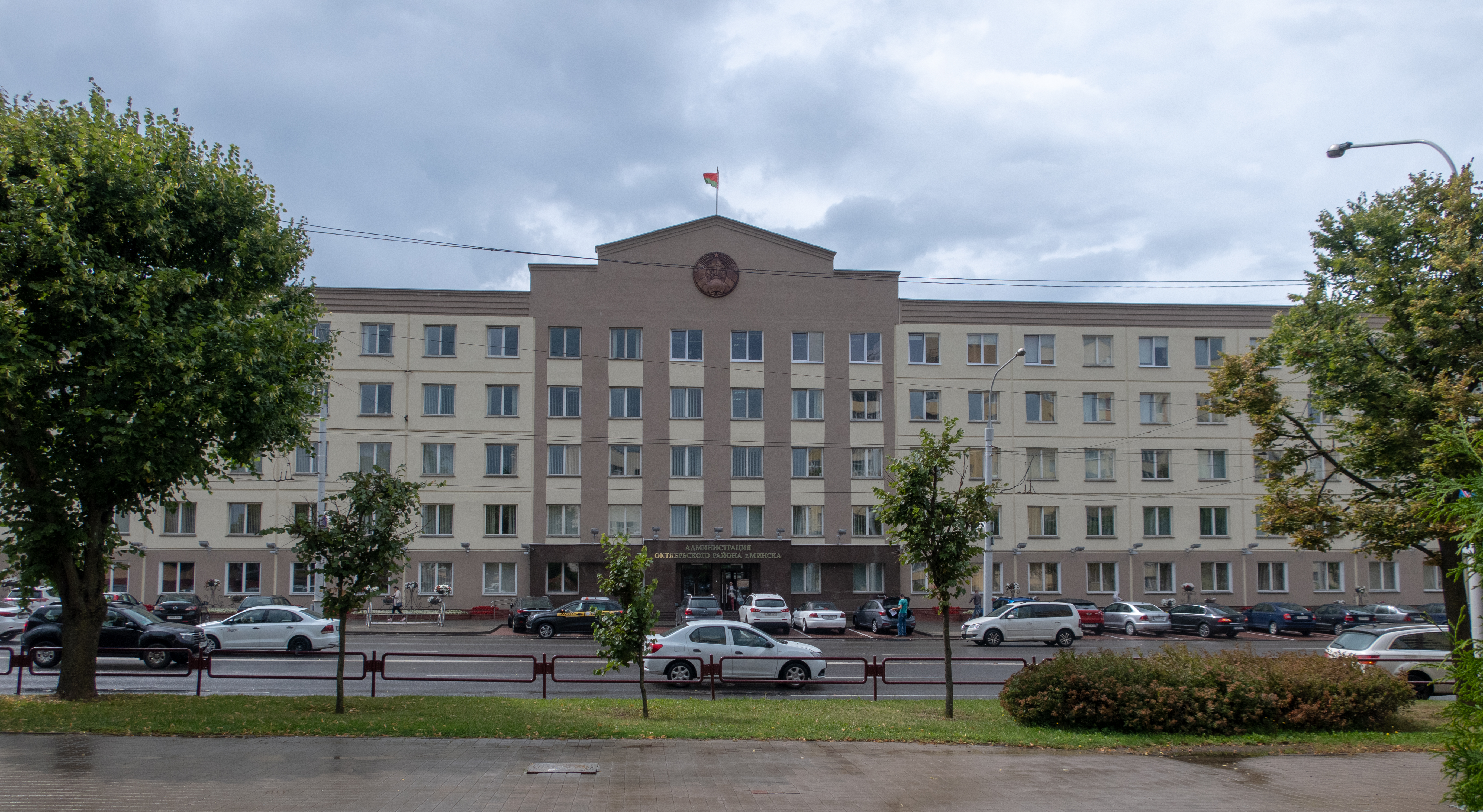 Čkalava street (Minsk, Belarus)